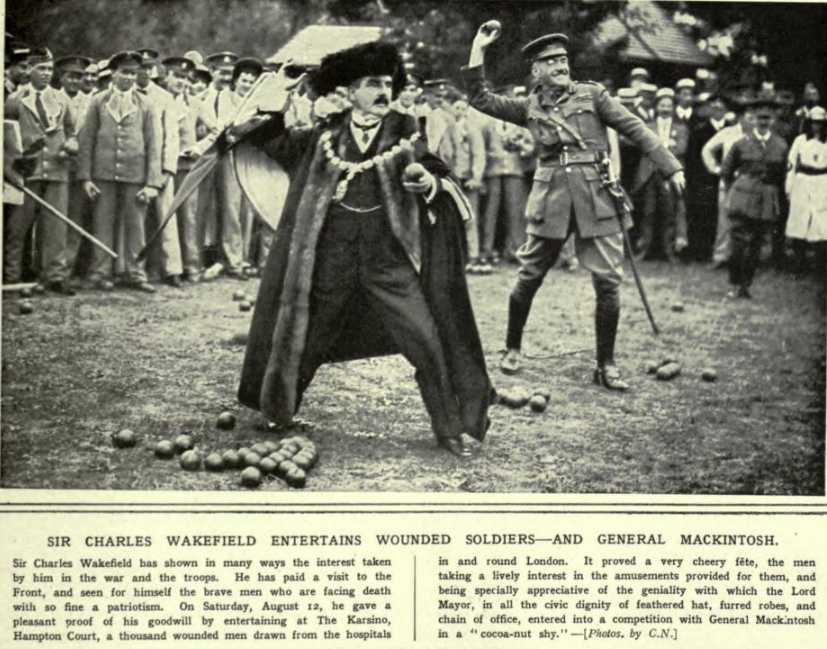 Sire Charles Wakefield, Mayor of London, amusing the troops in 1916